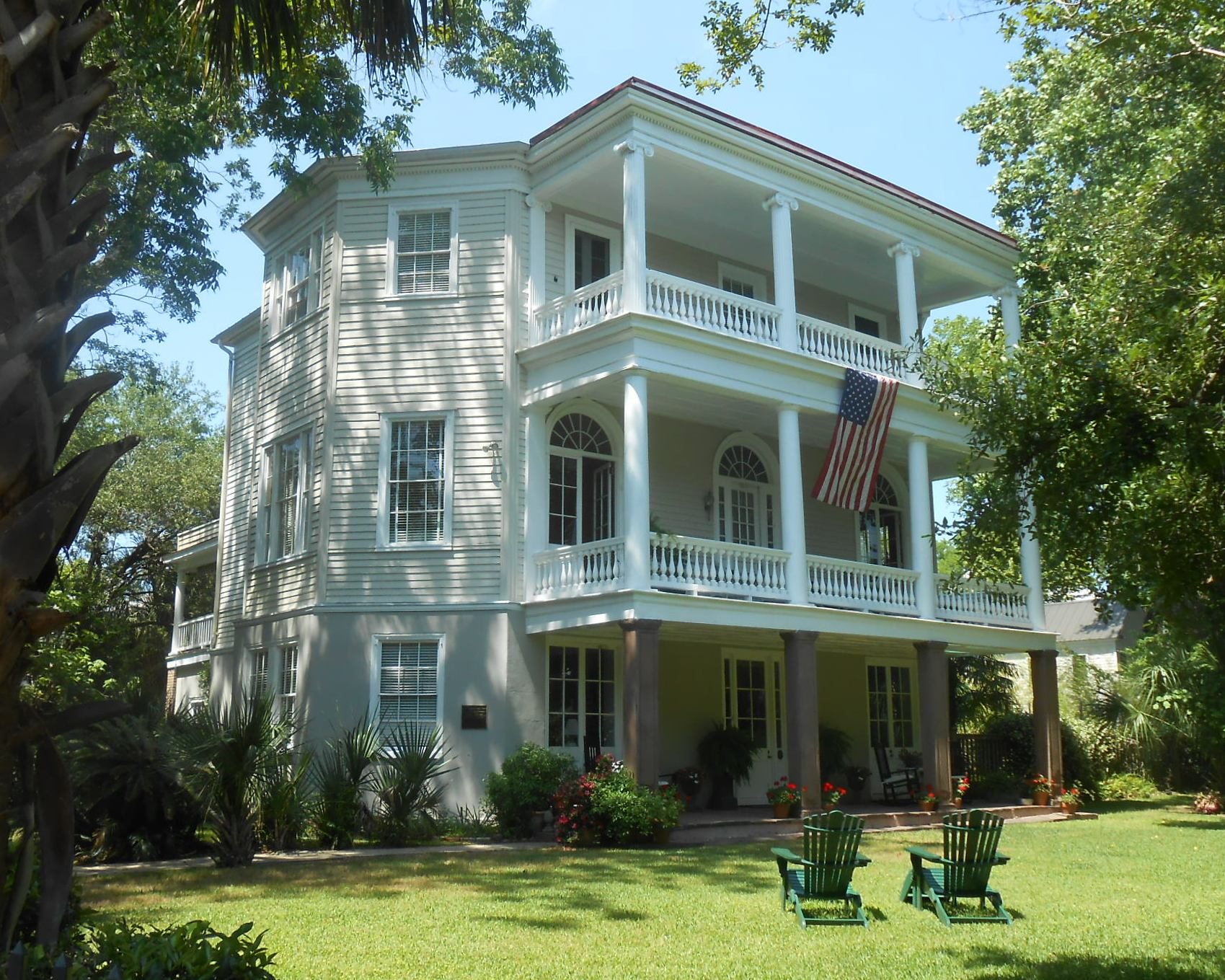 The Robert Barnwell Rhett House is a National Register property located at 6 Thomas St., Charleston, South Carolina.